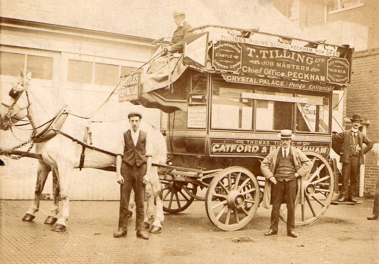 My Great Granddad George Laurence Houghton (in the boater) during his employment with Tillings.